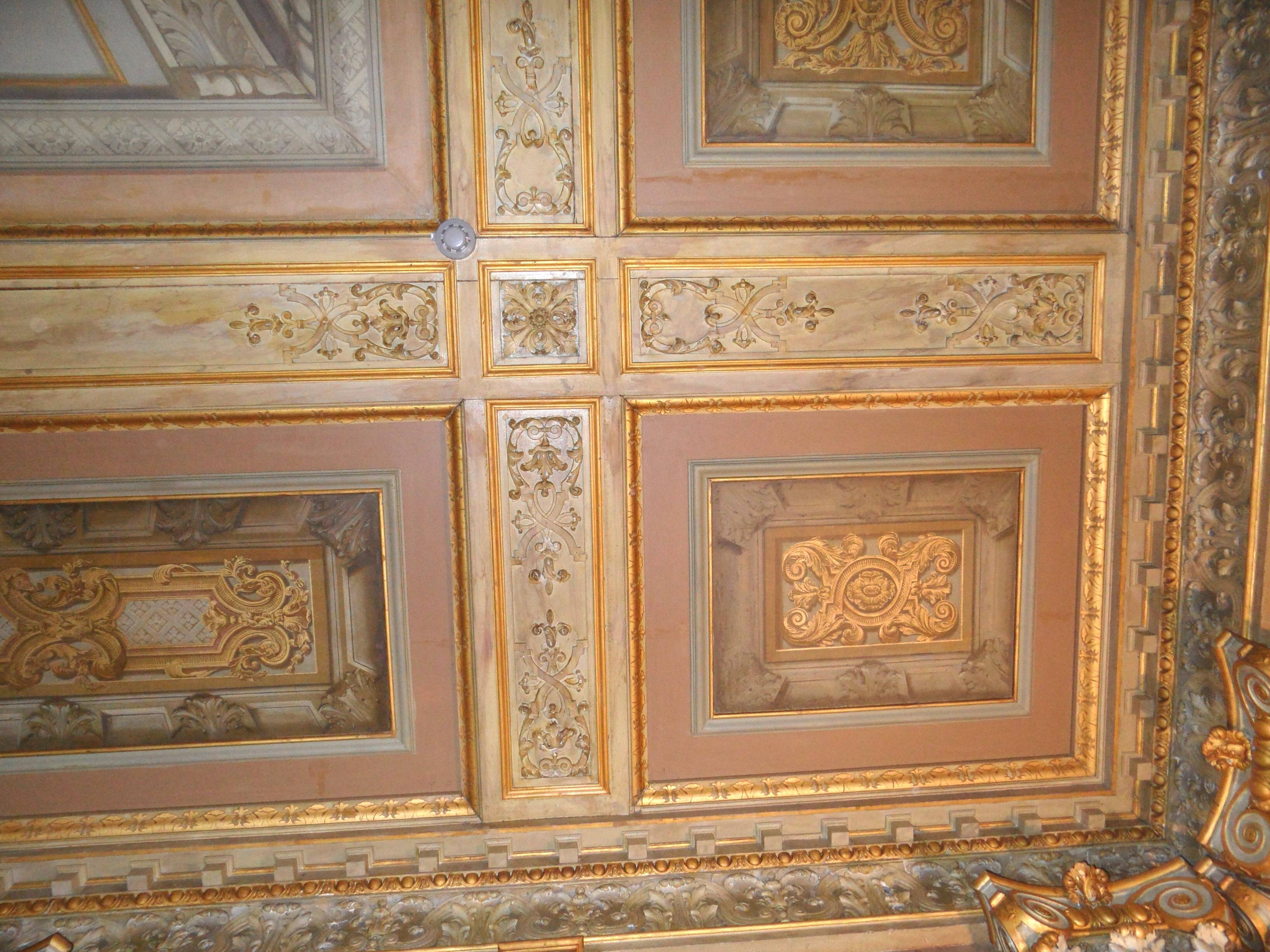 A smoke detector on the ceiling of the Koningin Wilhelminazaal in Het Loo Palace in the Netherlands.